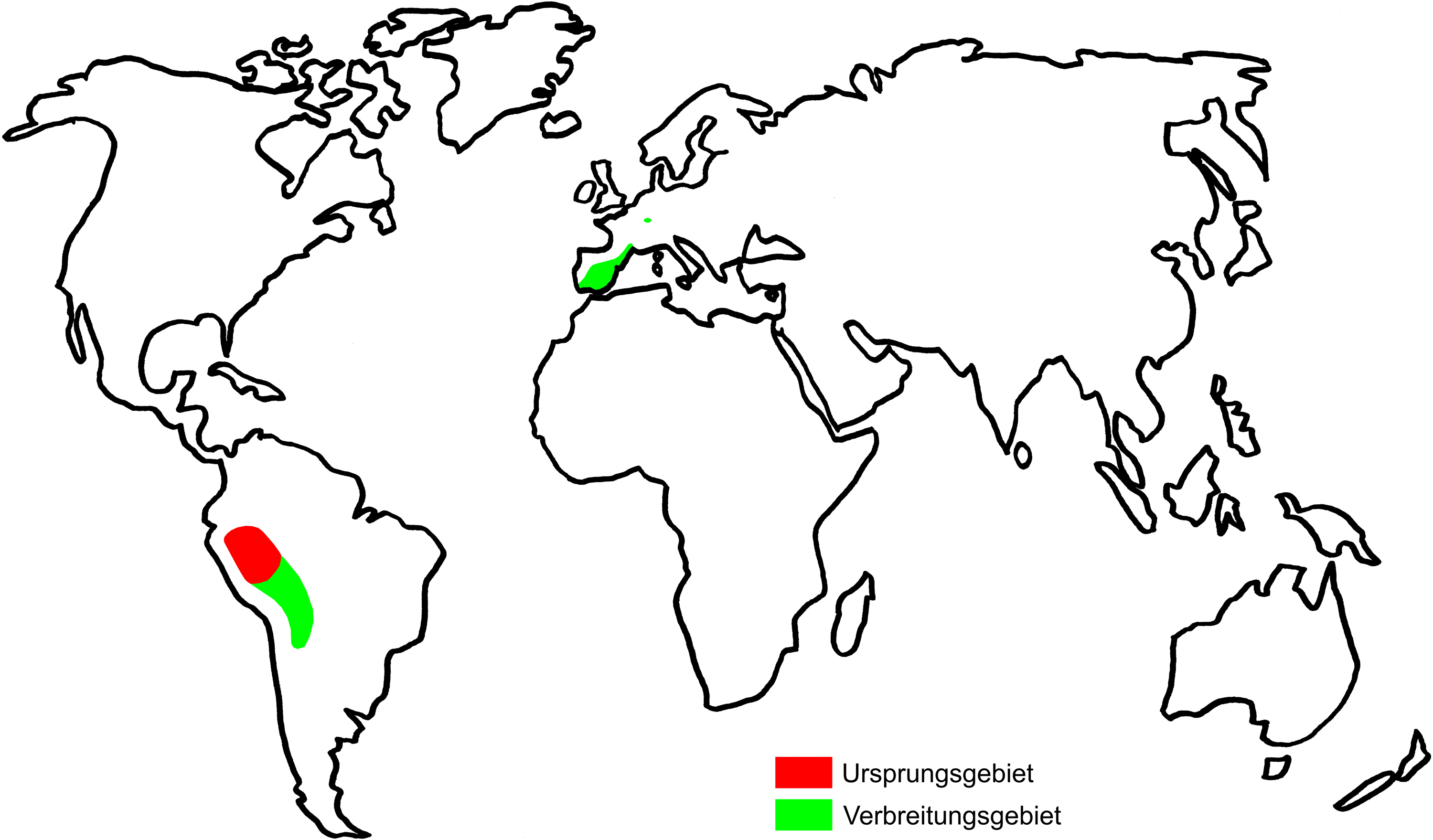 Origin dissemination of Quinoa The small "spot" in the southwest of Germany refers to the scientific cultivation trial. In my opinion, it can be deleted if someone regards it as irrelevant. (via google translator)